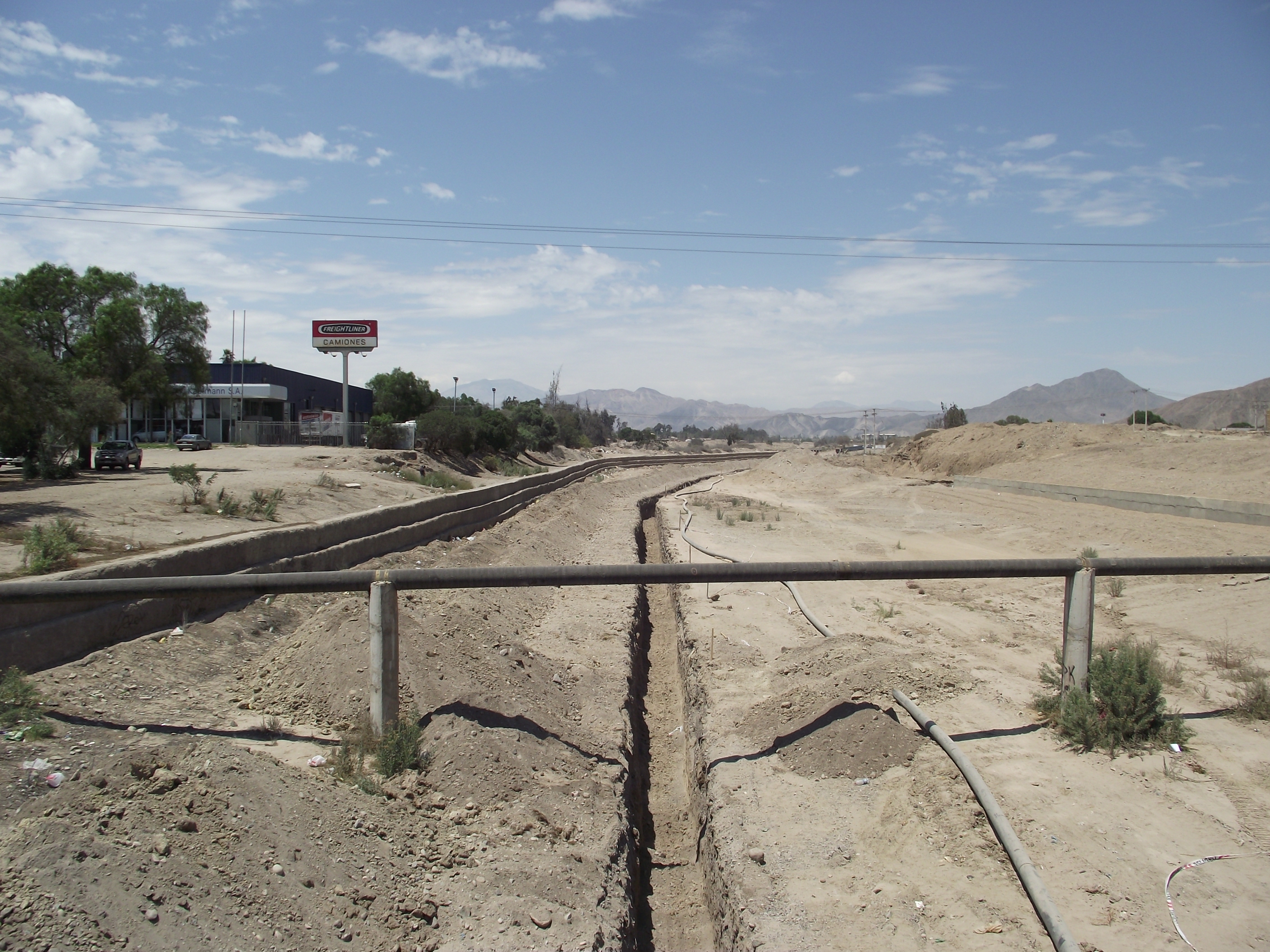 Copiapo river, dry from c.1996